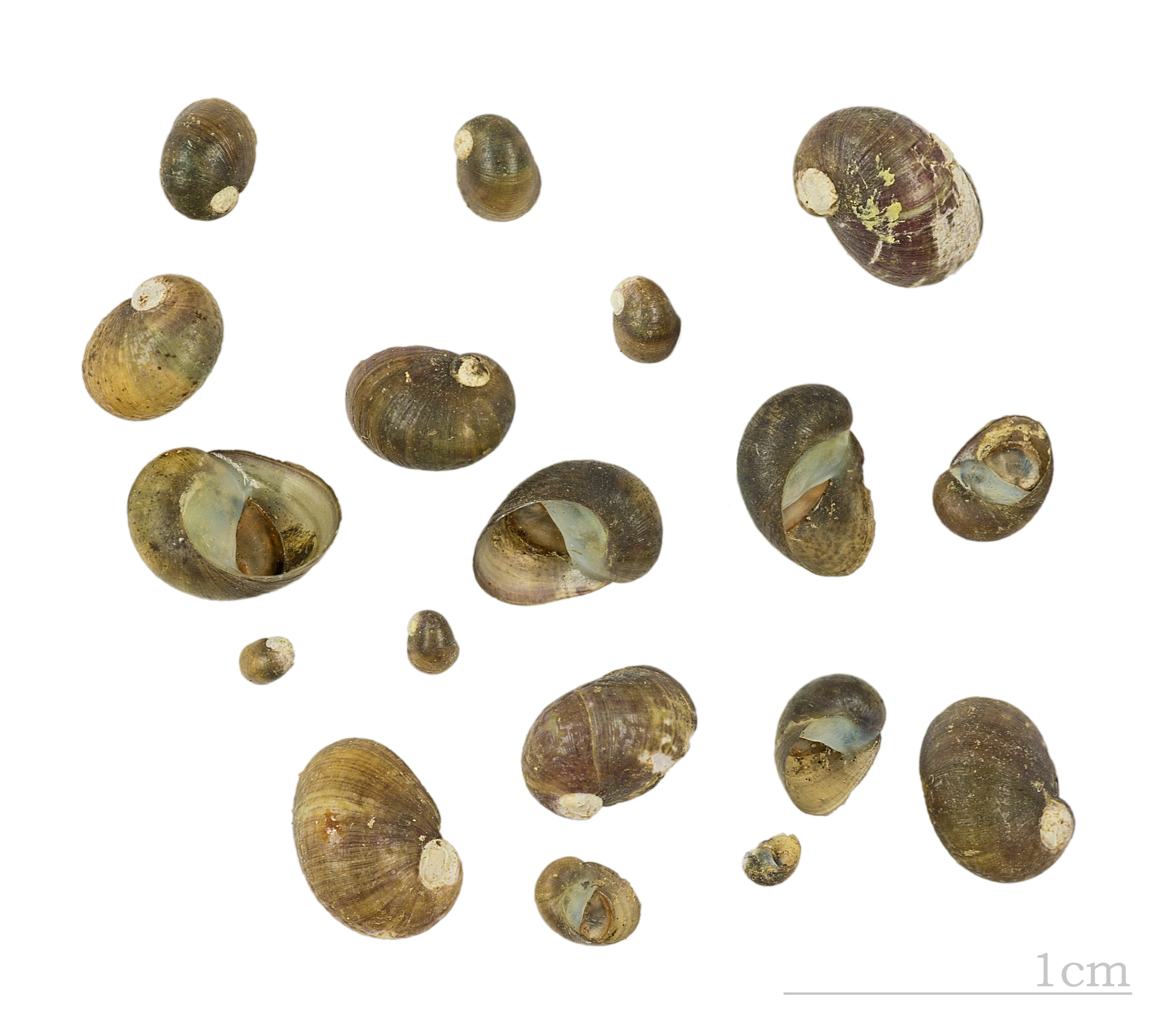 Theodoxus fluviatilis thermalis. Syntype.